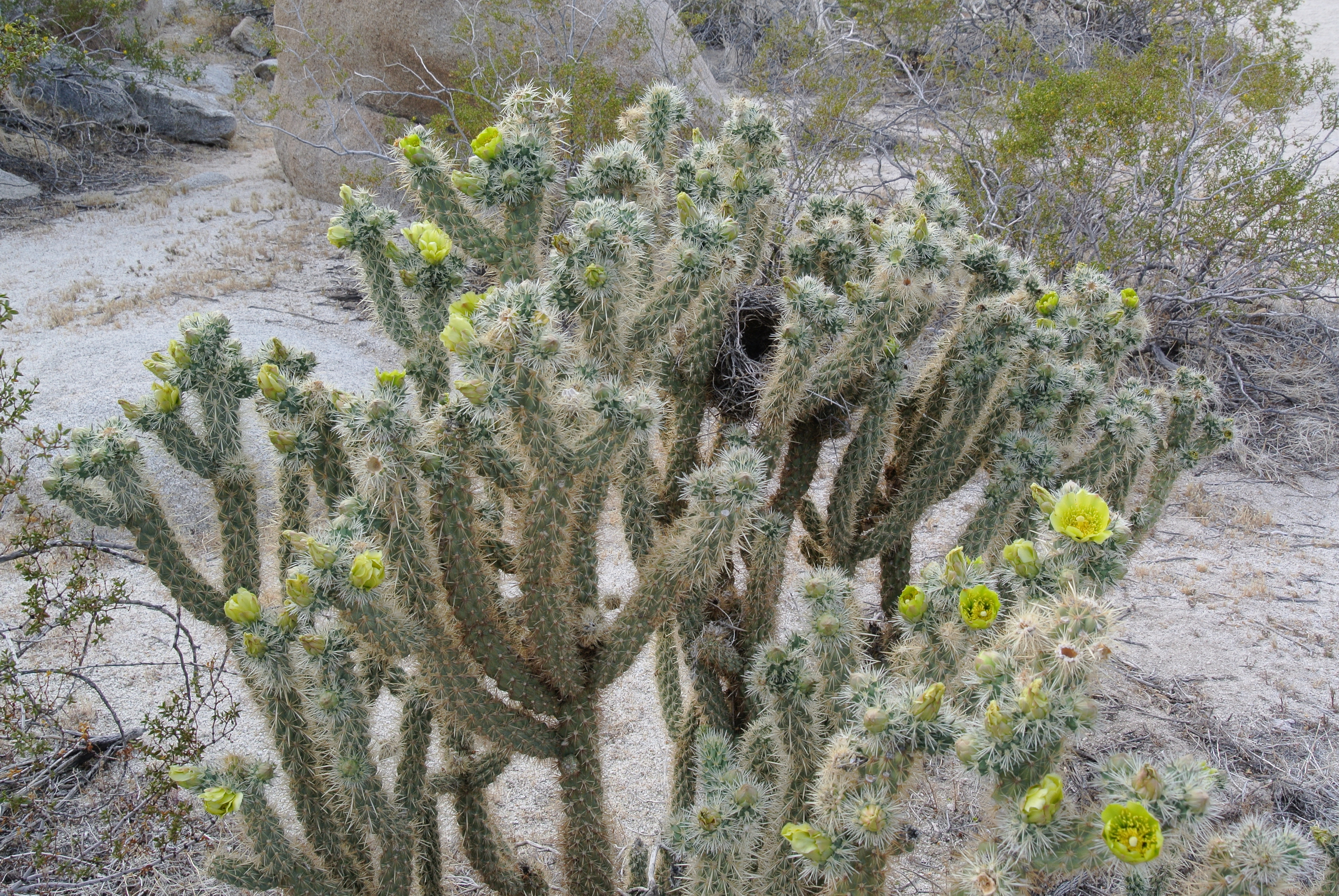 Cylindropuntia bigelovii — Teddy-bear cholla. Blooming cholla cactus with bird nest — in Anza Borrego Desert State Park, California.